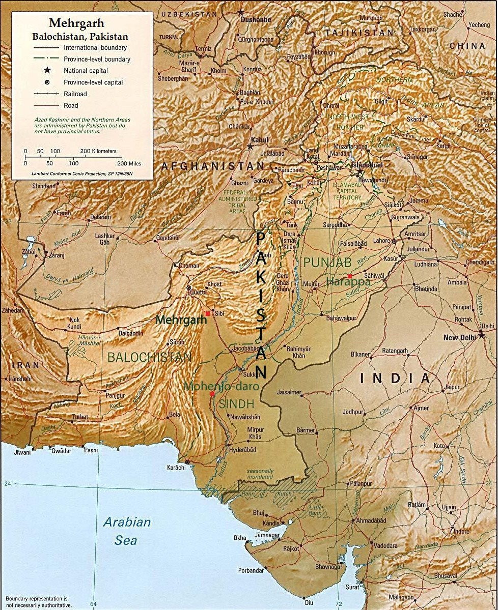 This is an annotated version of a relief map of Pakistan in the public domain([1]). The map was annotated by Fowler&fowler«Talk» 08:07, 7 March 2007 (UTC) and rereleased to the public domain.